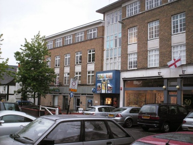 Theatre, Church Street, Leatherhead The entrance to Leatherhead Theatre, formerly known as the Thorndike Theatre.